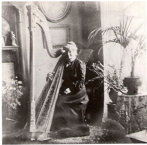 Photo of composer Marie Regina Siegling, courtesy of Wolfgang Horlbeck, Germany.